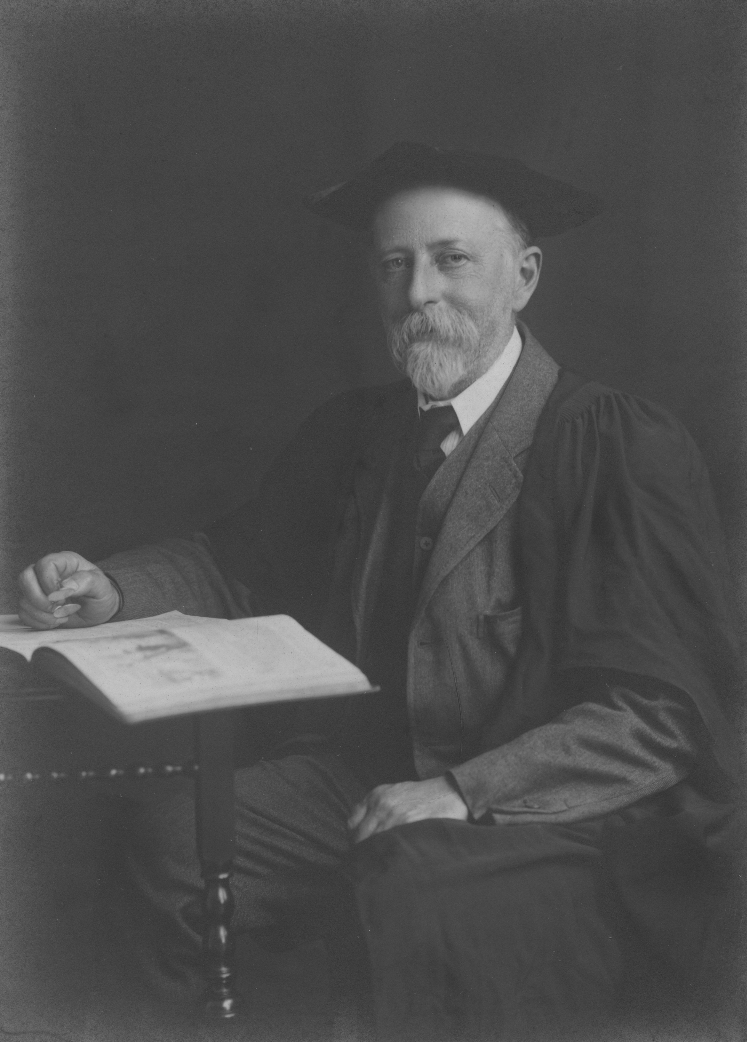 Professor of Political Economy IMAGELIBRARY/125 Persistent URL